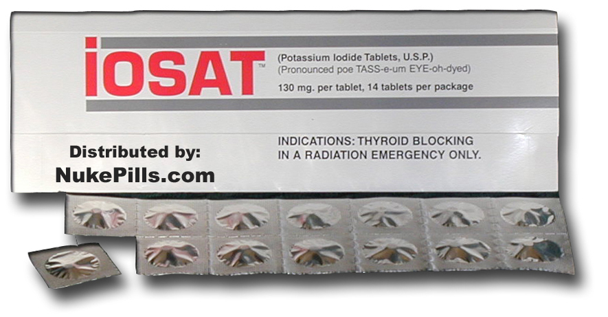 FDA approved Iosat Potassium Iodide tablets from